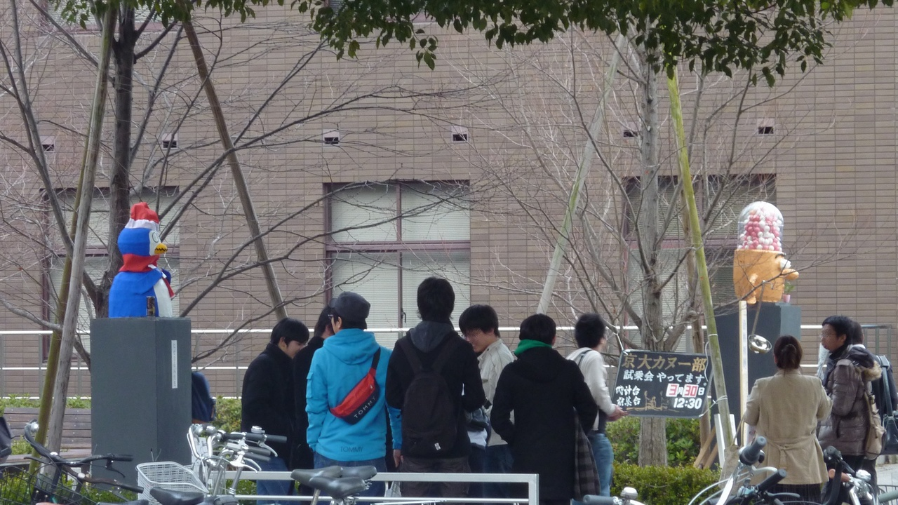 Mr.Orita Statue in 2011 - Kyoto University